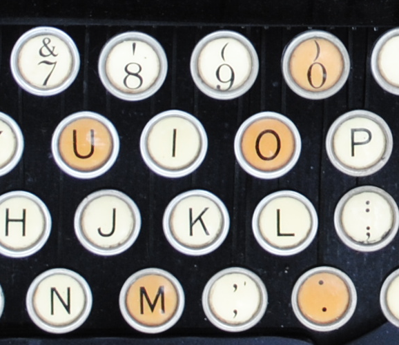 Crop of showing straight apostrophe used for single quote (left and right) and apostrophe on a single key, on a 1920’s Remington portable typewriter.